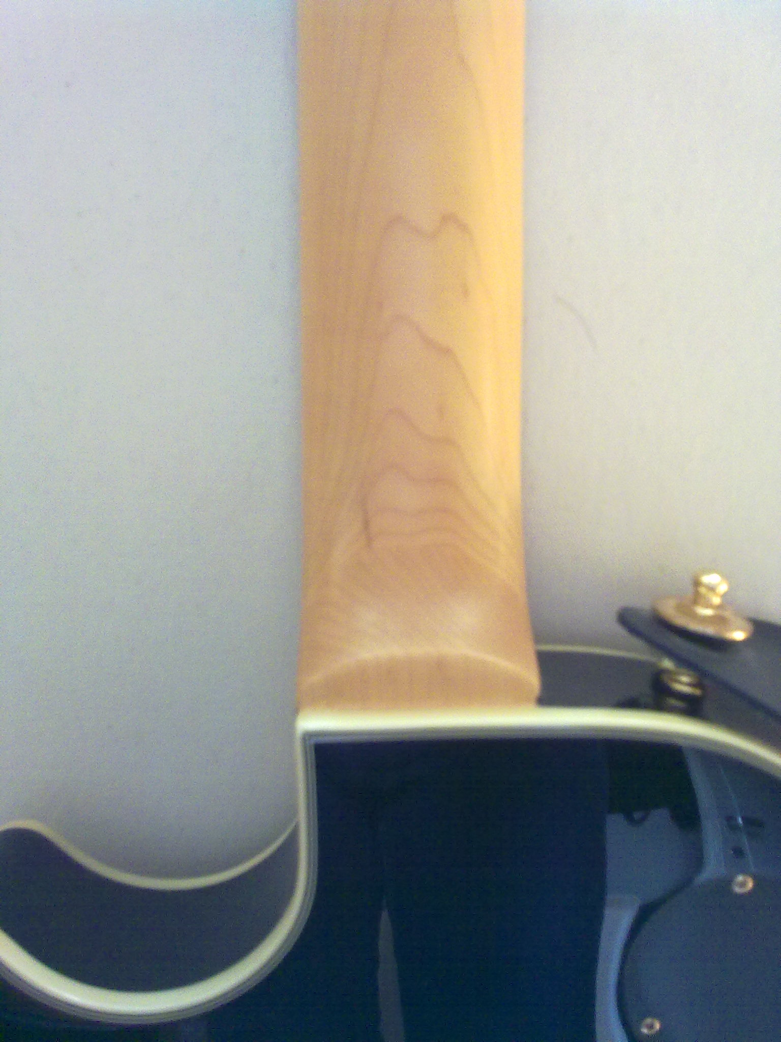 electric guitar neck (set in)